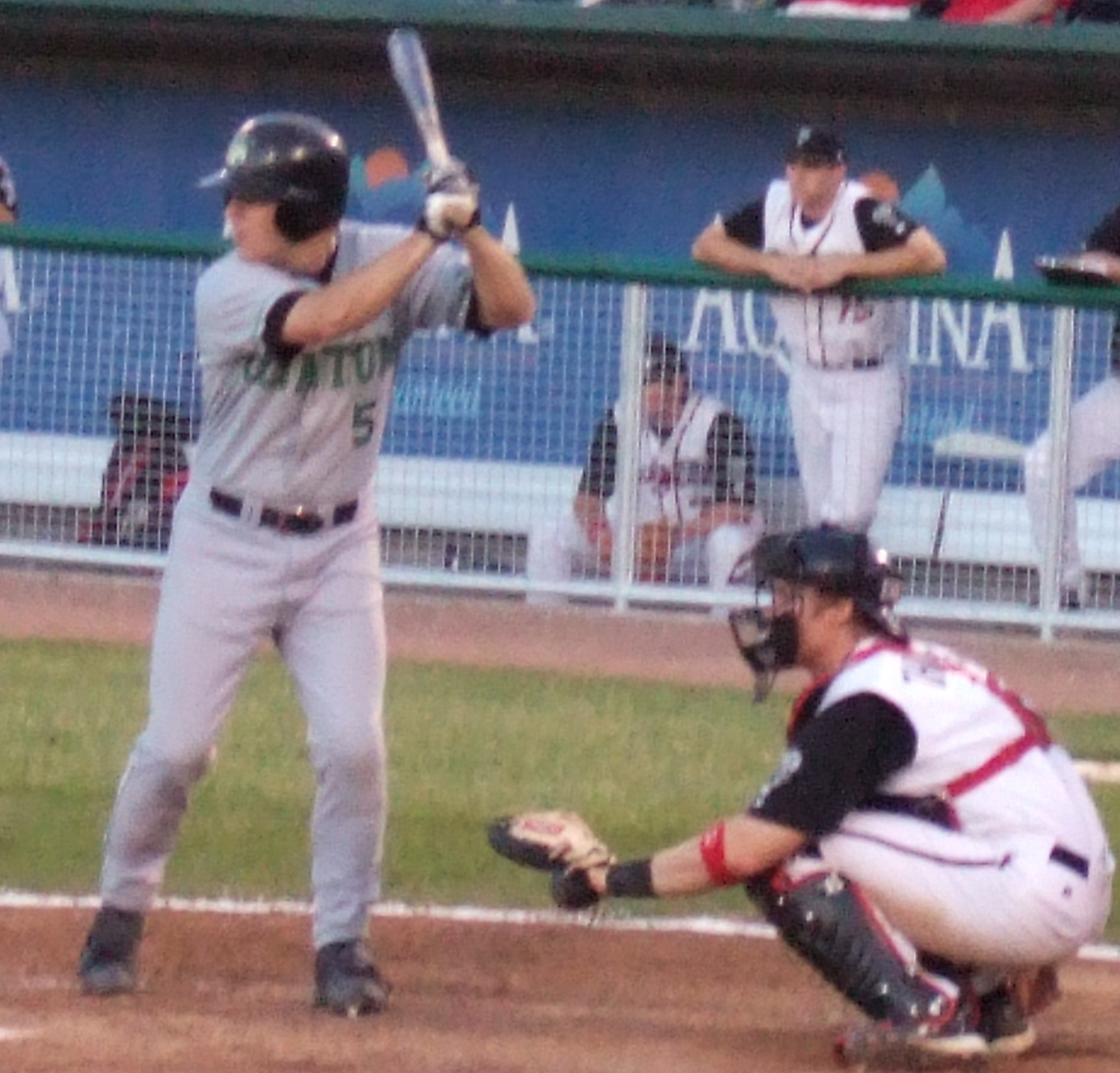 Tug Hulett bats for the Clinton LumberKings against the Lansing Lugnuts in 2005.